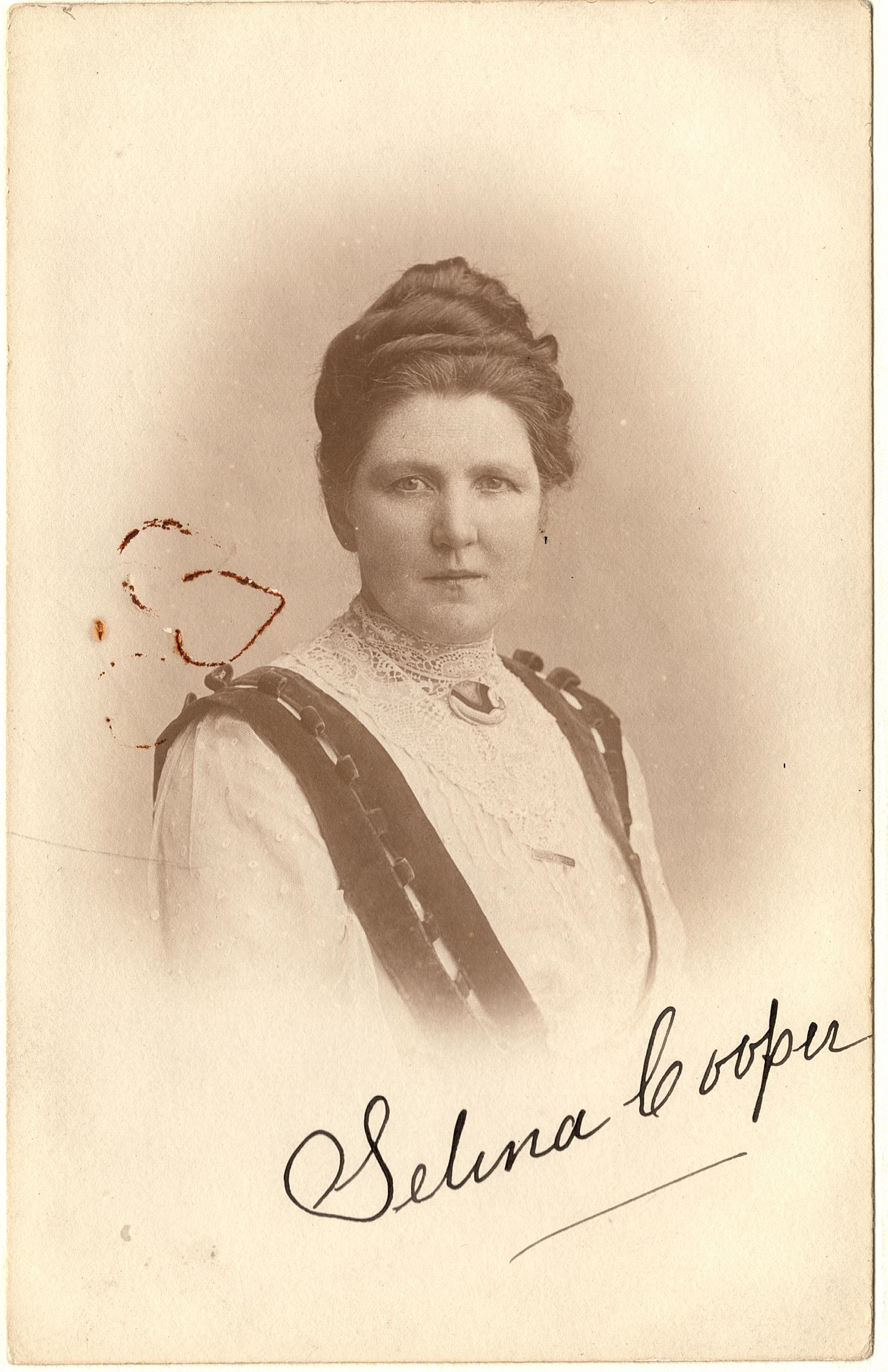 Selina Cooper 1906 - 1914 so lets guess 1910 TWL 2002 47